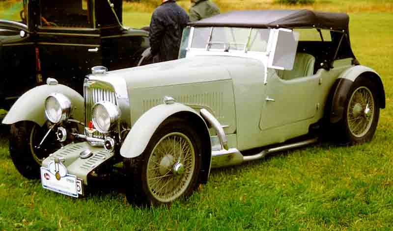 Aston Martin Mk II 2-Seater Sports 1935